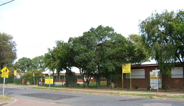 A picture of St. Patrick's Primary School in Mansfield Park, taken by Blnguyen on April 2, 2006.